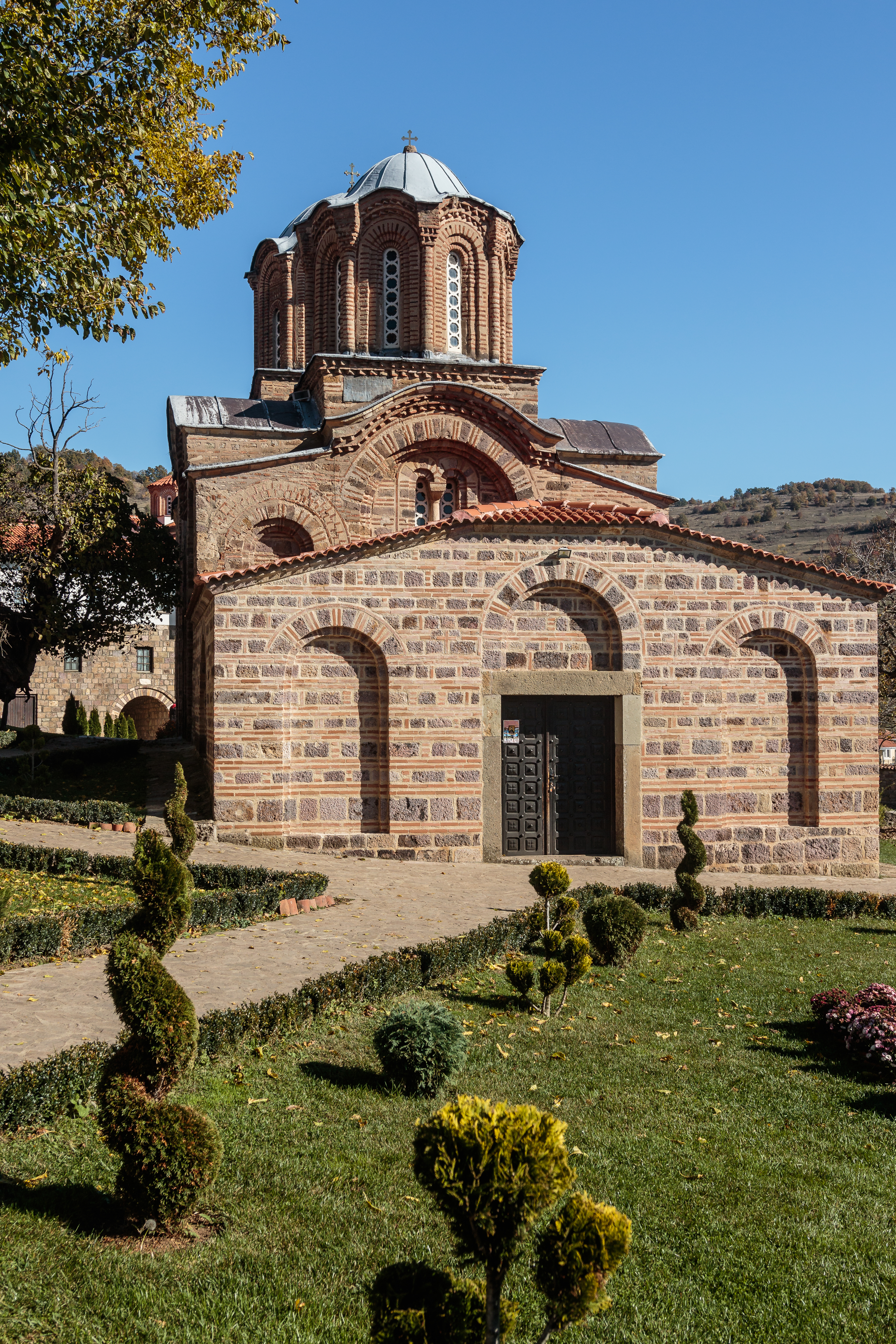 St. Michael the Archangel Church in the Lesnovo monastery, Zletovo-Probištip Region, Macedonia